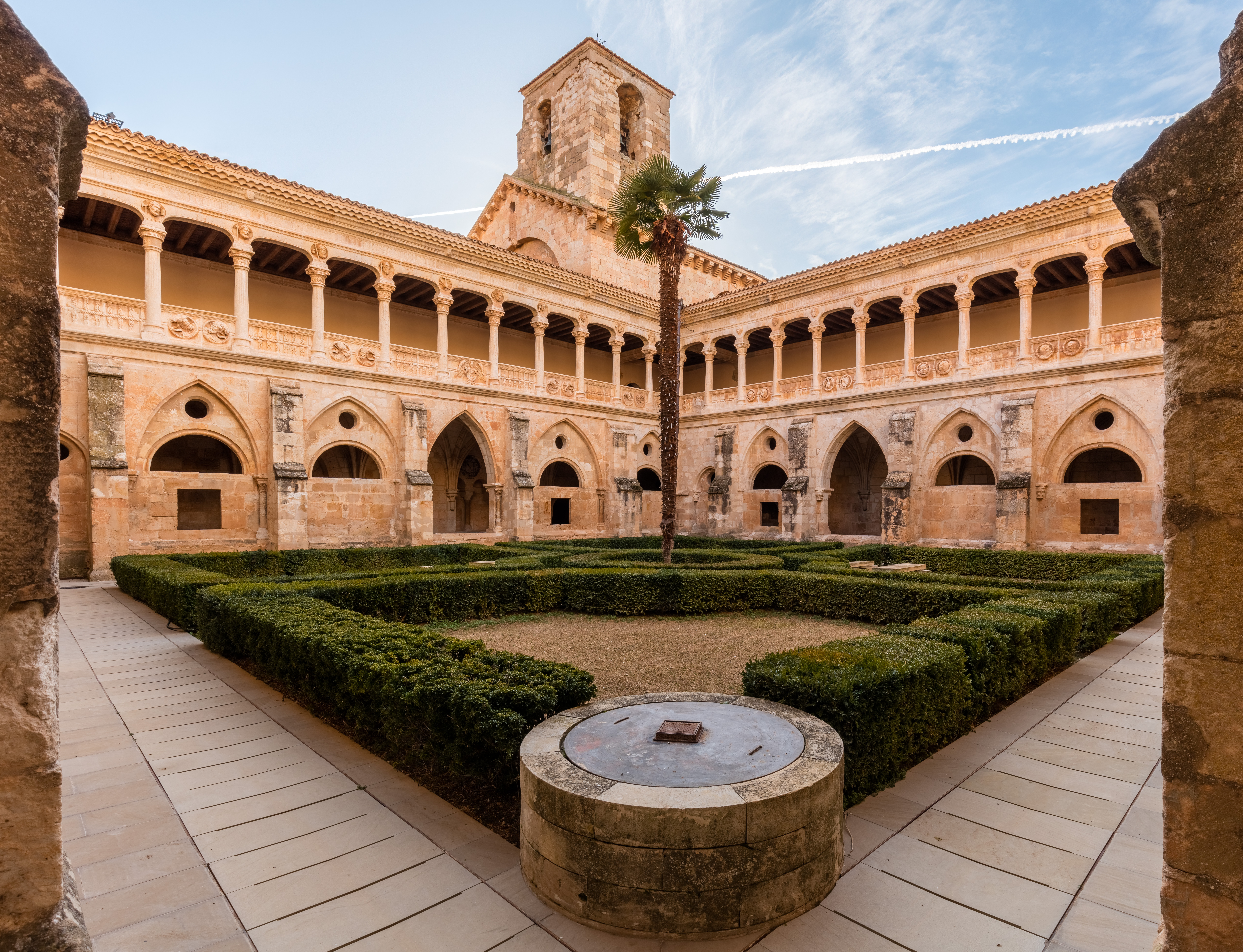 Monastery of Santa María de Huerta, Santa María de Huerta Soria, Spain